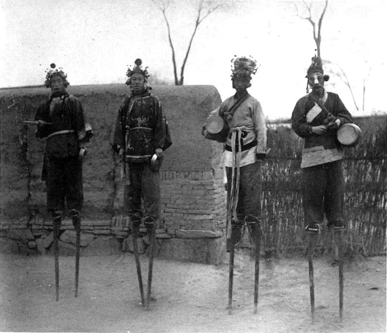 Image from La Chine à terre et en ballon.